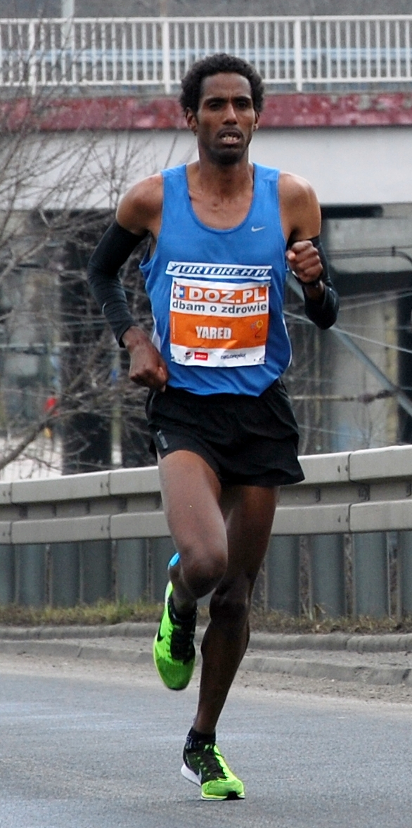 Łódź Dbam o Zdrowie Marathon 2013. Long-distance runner representing Poland, Yared Shegumo.